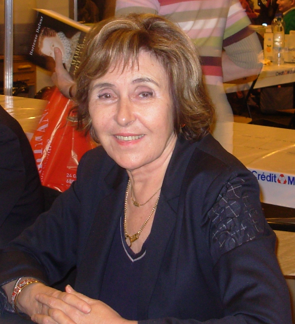 Edith Cresson, prime minister of France